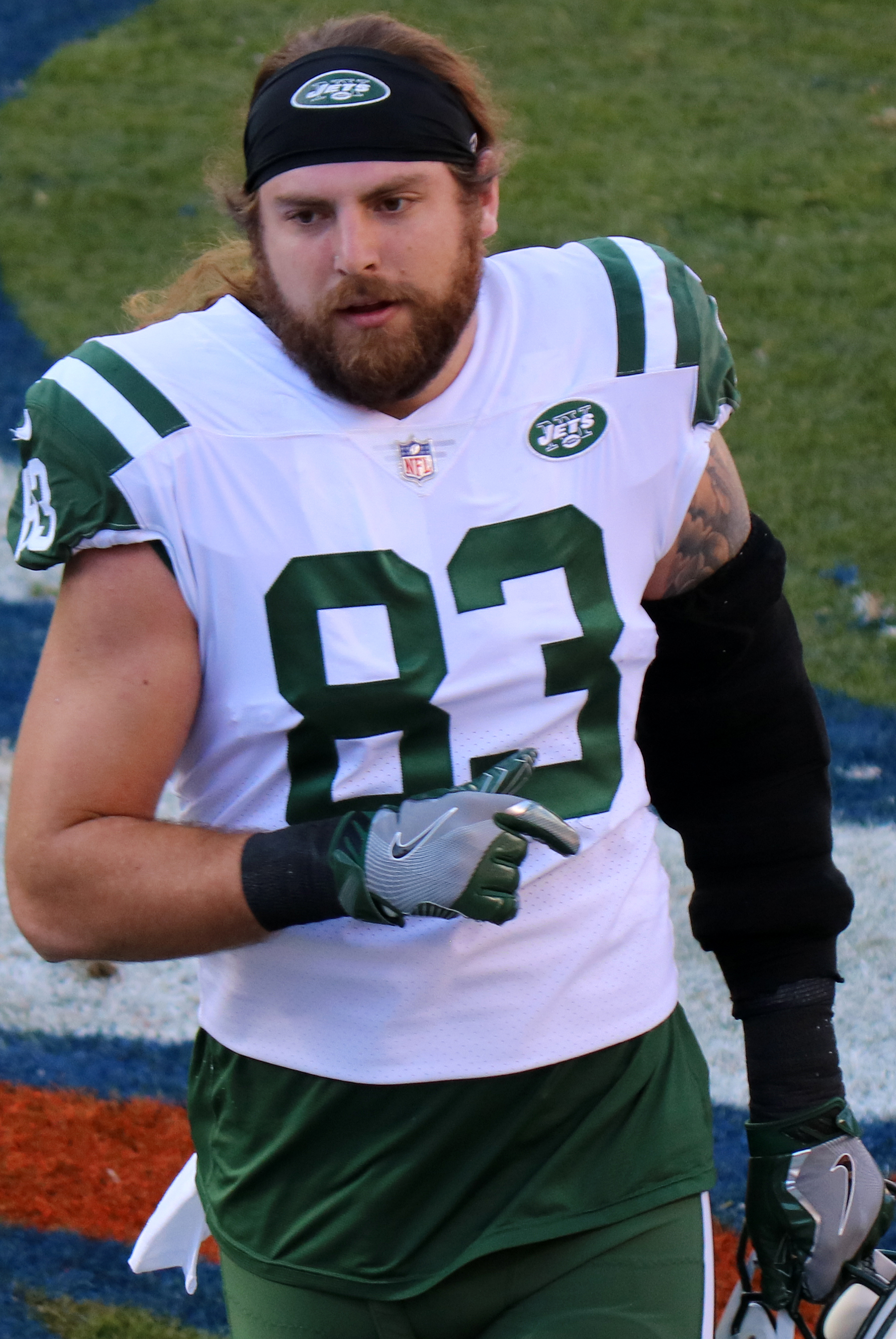 Eric Tomlinson, a National Football League player.